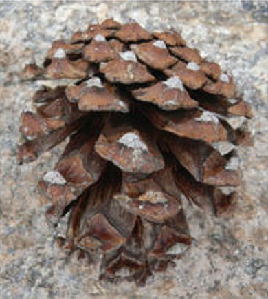 Cone of Pinus leiophylla subsp. chihuahuana